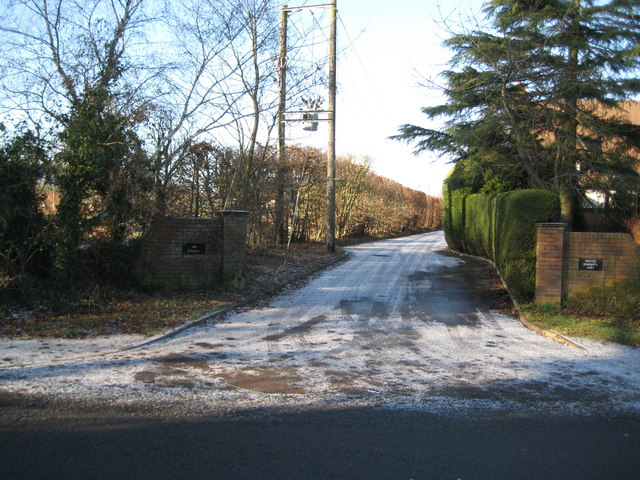 At one time Speen had its own station on the Lambourn Valley Railway. It opened in 1898 and closed in 1960, fifty years previously to the day, bar one, that this photograph was taken. The driveway follows the course of the old railway and Speen railway station was on the left where the sunlit hedge is now. The driveway leads to a new private residential estate somewhat tweely called "The Sydings" and odd because contemporary map and photographic evidence shows that of all the accoutrements of railway infrastructure a siding, yet alone more than one, was never warranted here.